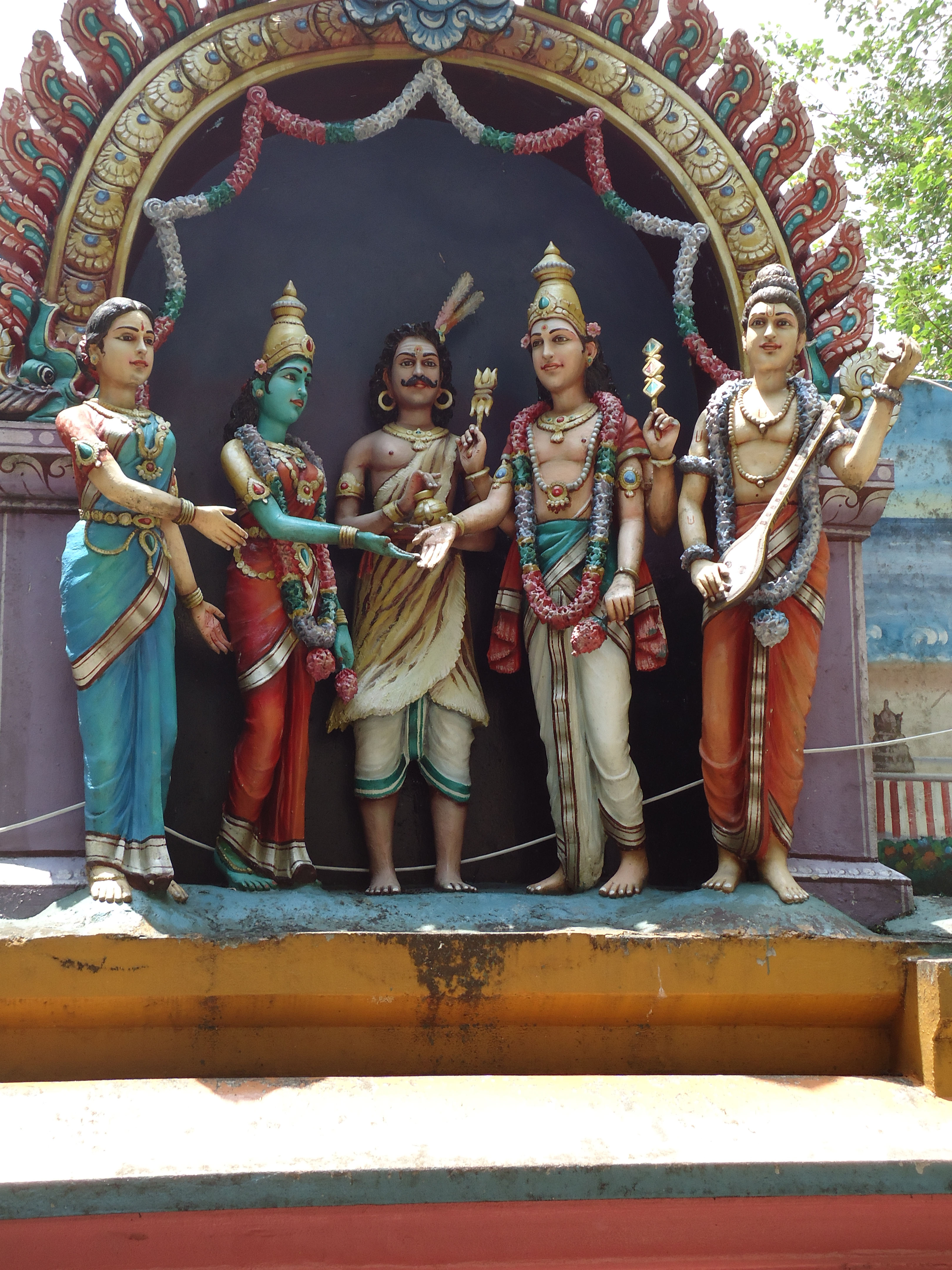 Batu Caves